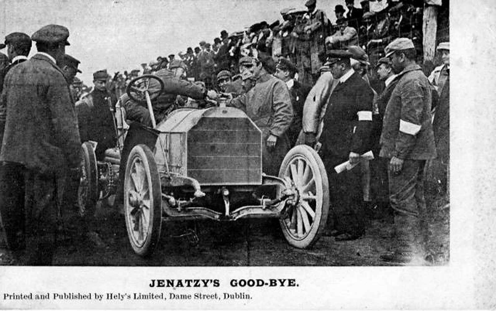 Jenatzy, 1903 Gordon Bennett winner, driving a Mercedes. Postcard, published by Hely's Ltd., Dublin